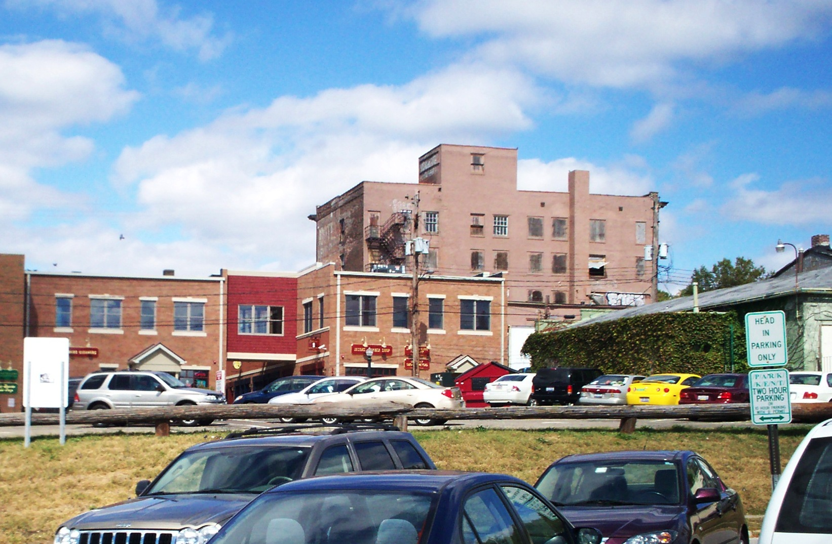 The Franklin Hotel in Kent, Ohio in late 2010 just after the completion of the original section of the adjacent Acorn Alley (left of center) and prior to demolition work and construction of the second phase of Acorn Alley in the foreground.